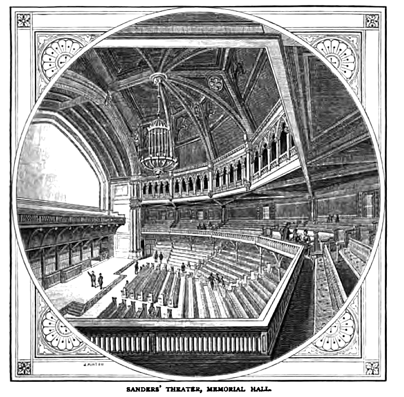 Illustration of the Sanders Theater in Memorial Hall, Harvard University, circa 1876